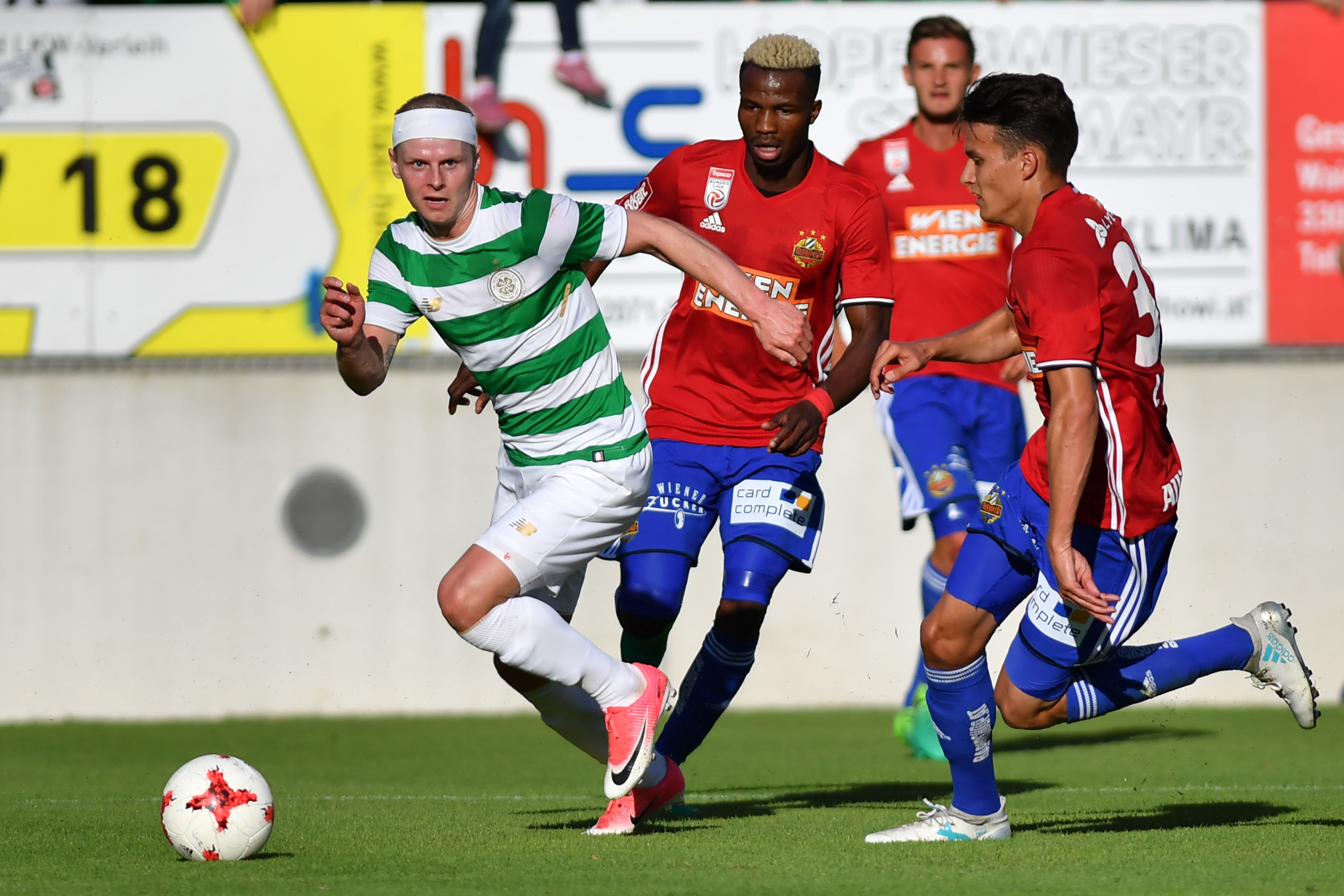 1/7/2017, Amstetten, Austria, sports, soccer, Tipico Fussball Bundesliga - preparation match SK Rapid Wien vs Celtic Glasgow. Image shows Gary Mackay-Steven (Celtic FC) and Boli Bolingoli (SCR).